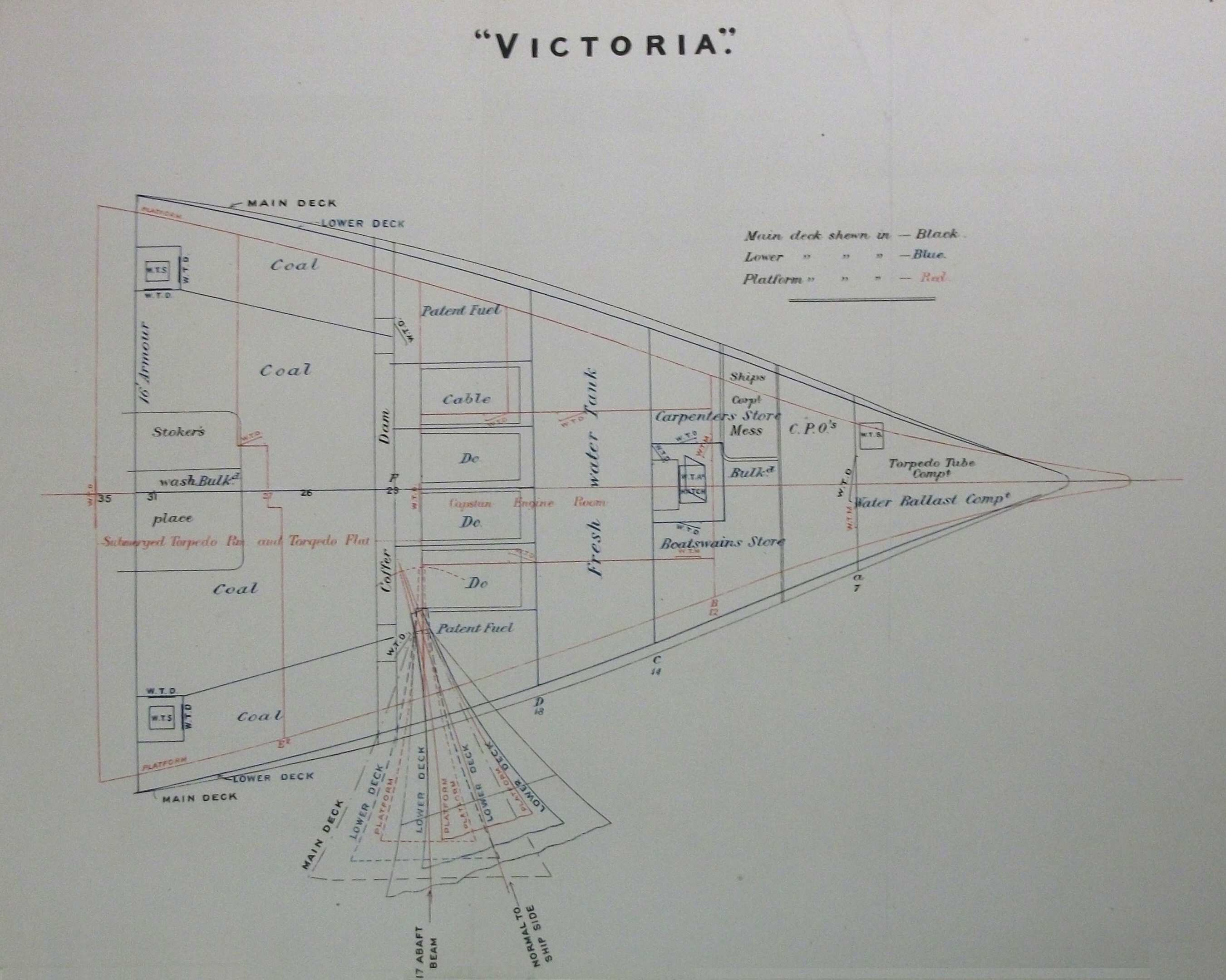 Diagram showing point of collision of HMS Camperdown with HMS Victoria which occurred in the Mediterranean, 1893. Diagram submitted in evidence at the court-martial and published by HMSO, 1893 together with the trial transcript.